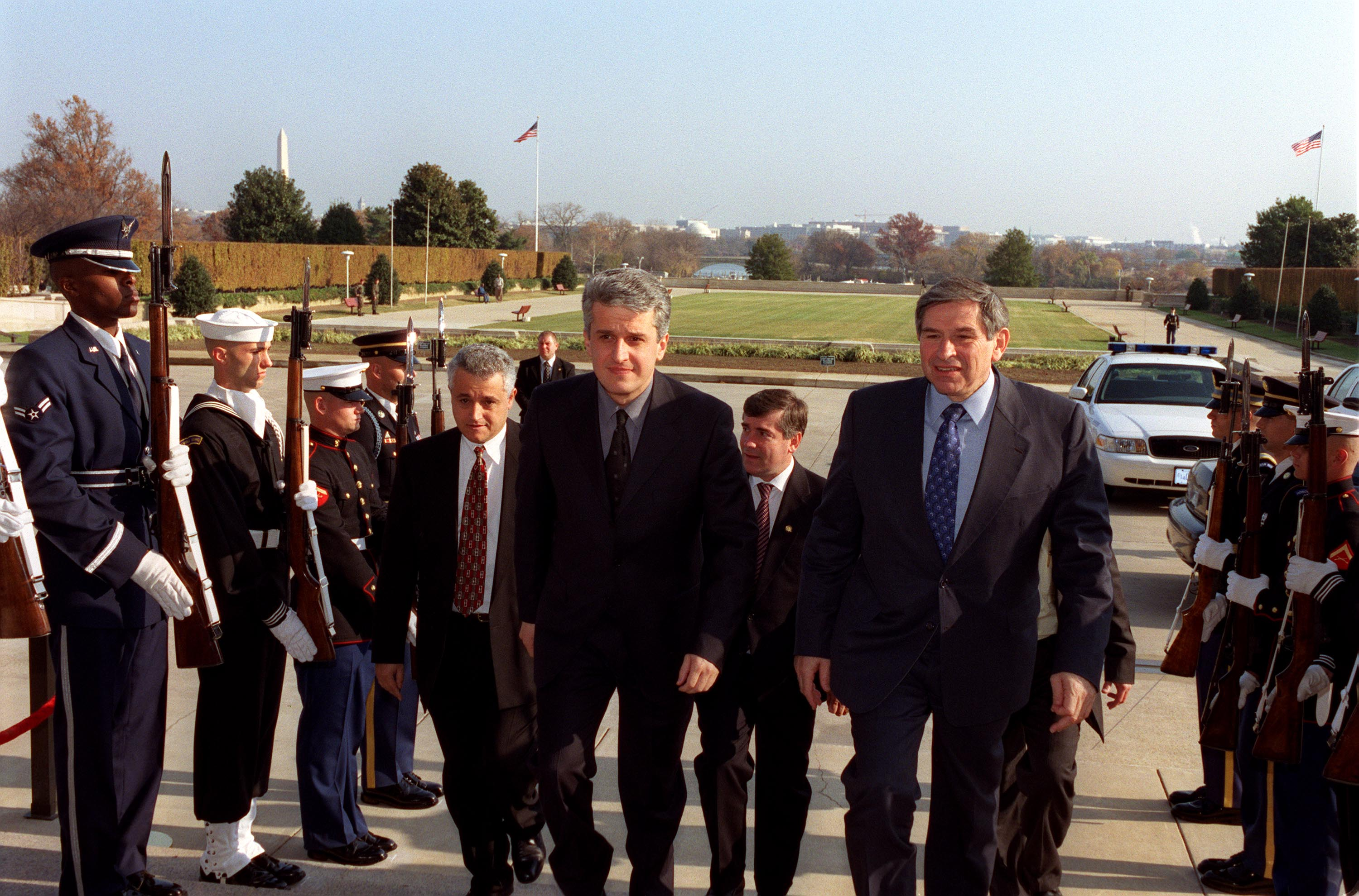 Albanian Minister of Defense Pandeli Majko (left) is escorted through an honor cordon and into the Pentagon by Deputy Secretary of Defense Paul Wolfowitz (right) on Nov. 19, 2001. The two leaders will meet to discuss issues of mutual interest to both nations.